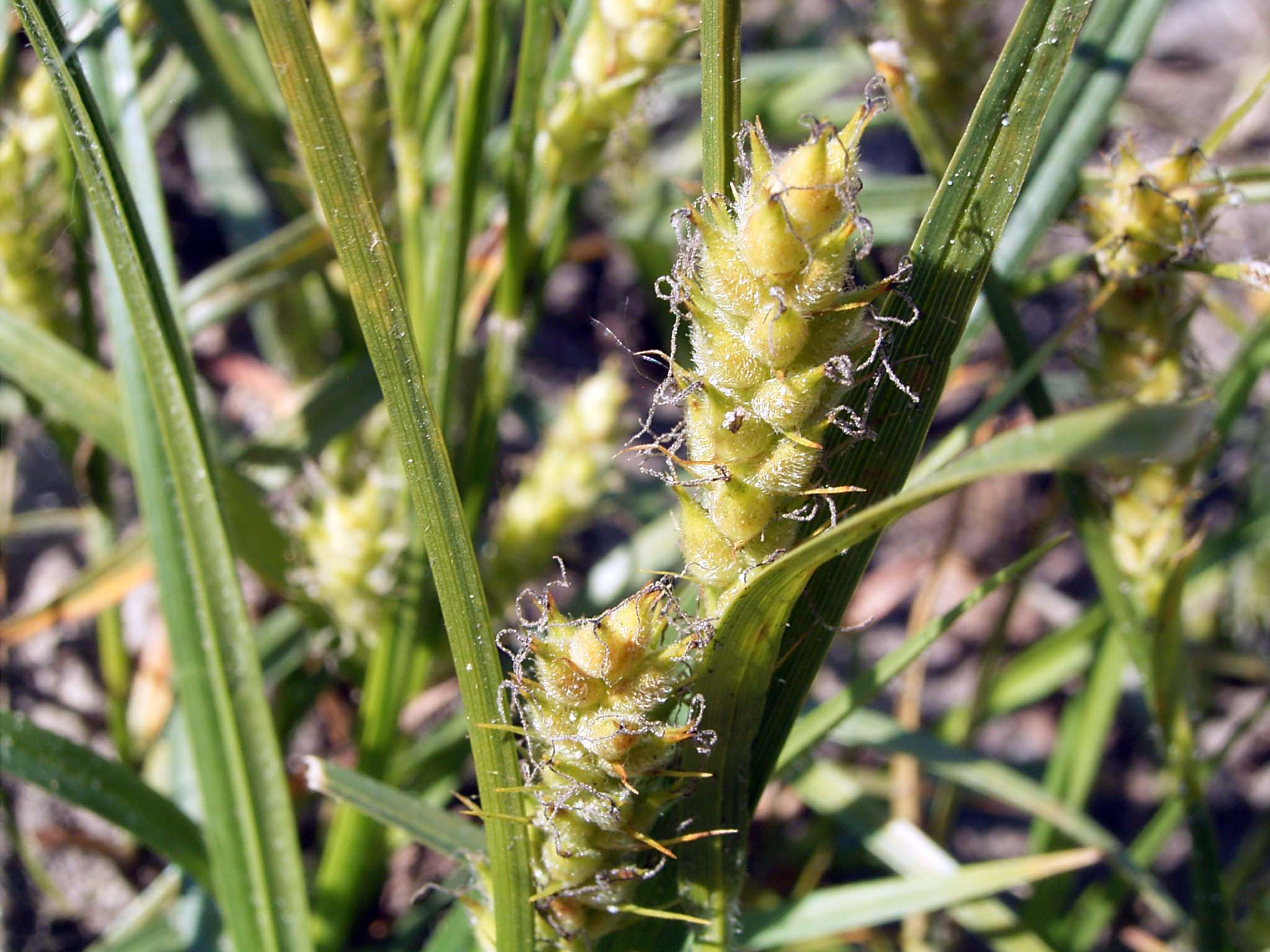 Female spike of Carex hirta, sandy wayside, Lower Saxony (Germany)